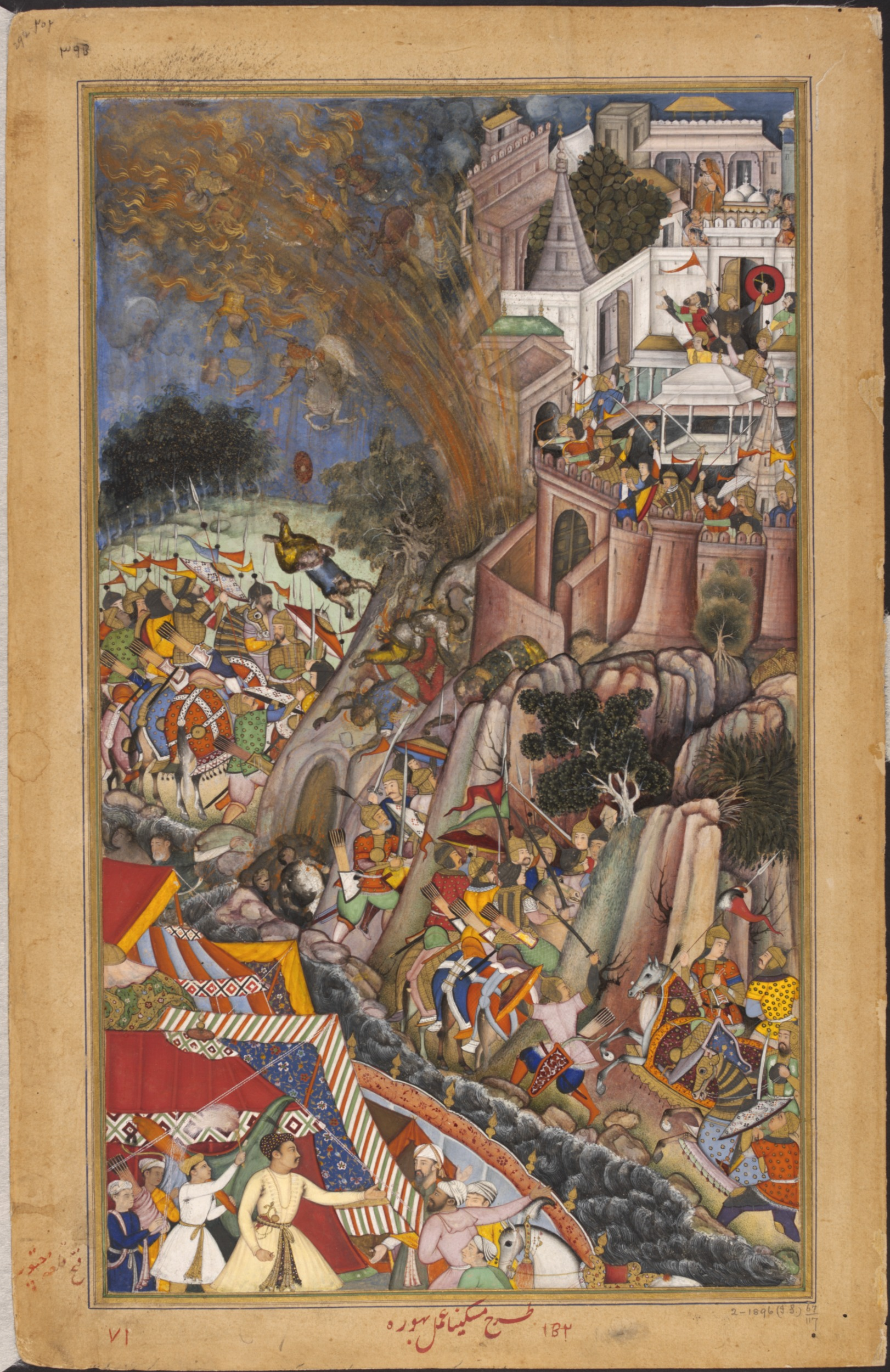 It illustrates an incident when a mine exploded during the Mughal attack on the Rajput fortress of Chitor (Chittaurgarh) in north-west India in 1567, killing many of the besieging Mughal forces. In right side Mughal sappers are shown preparing covered paths to enable the army to approach the fortress, while their opponents fiercely defend themselves.